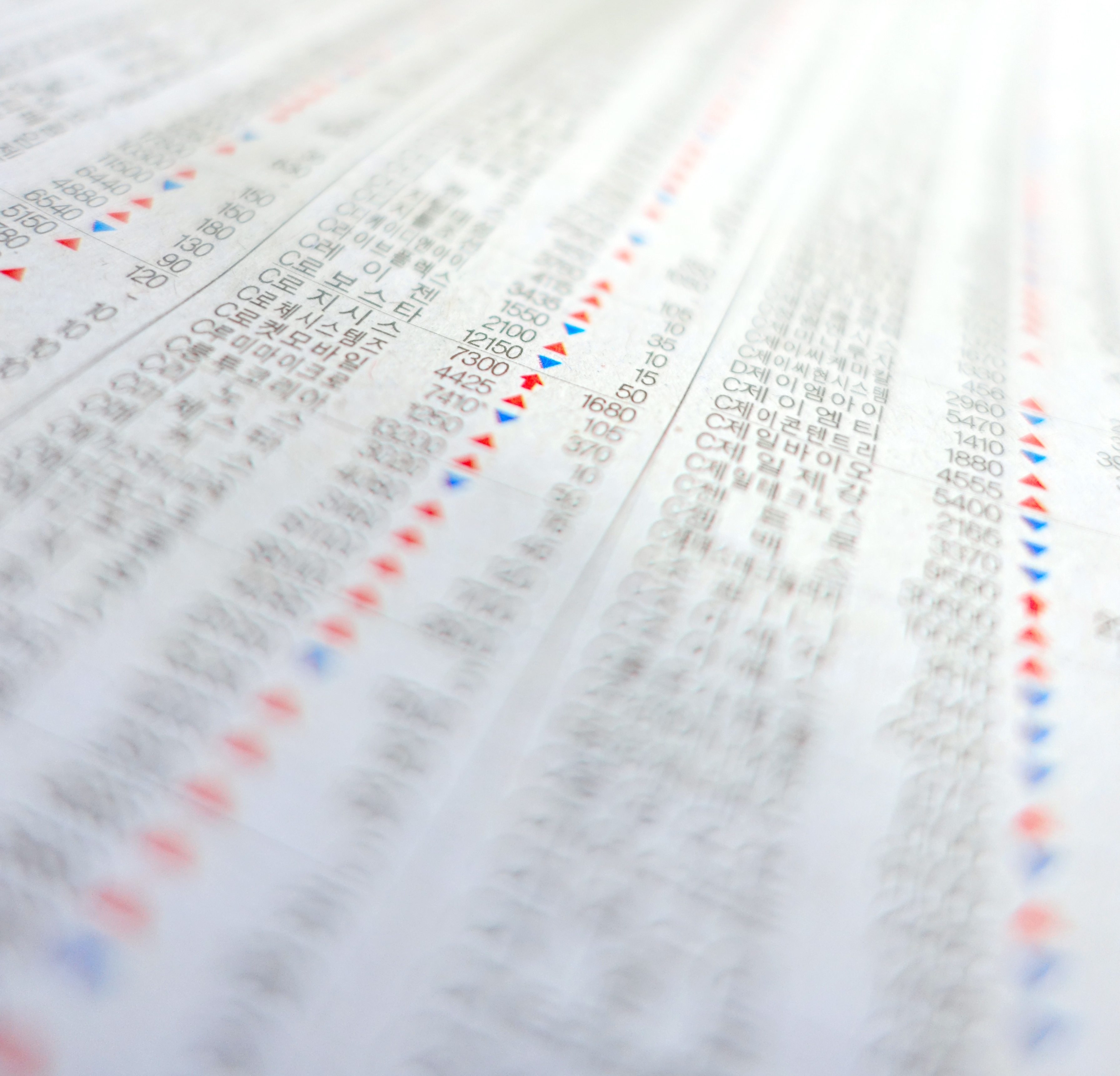 Stock price listing numbers on a Korean newspaper